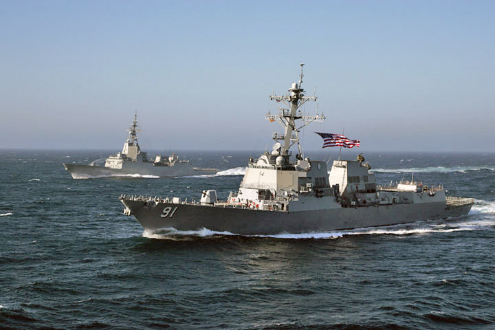 The USS Pinckney (DDG-91)